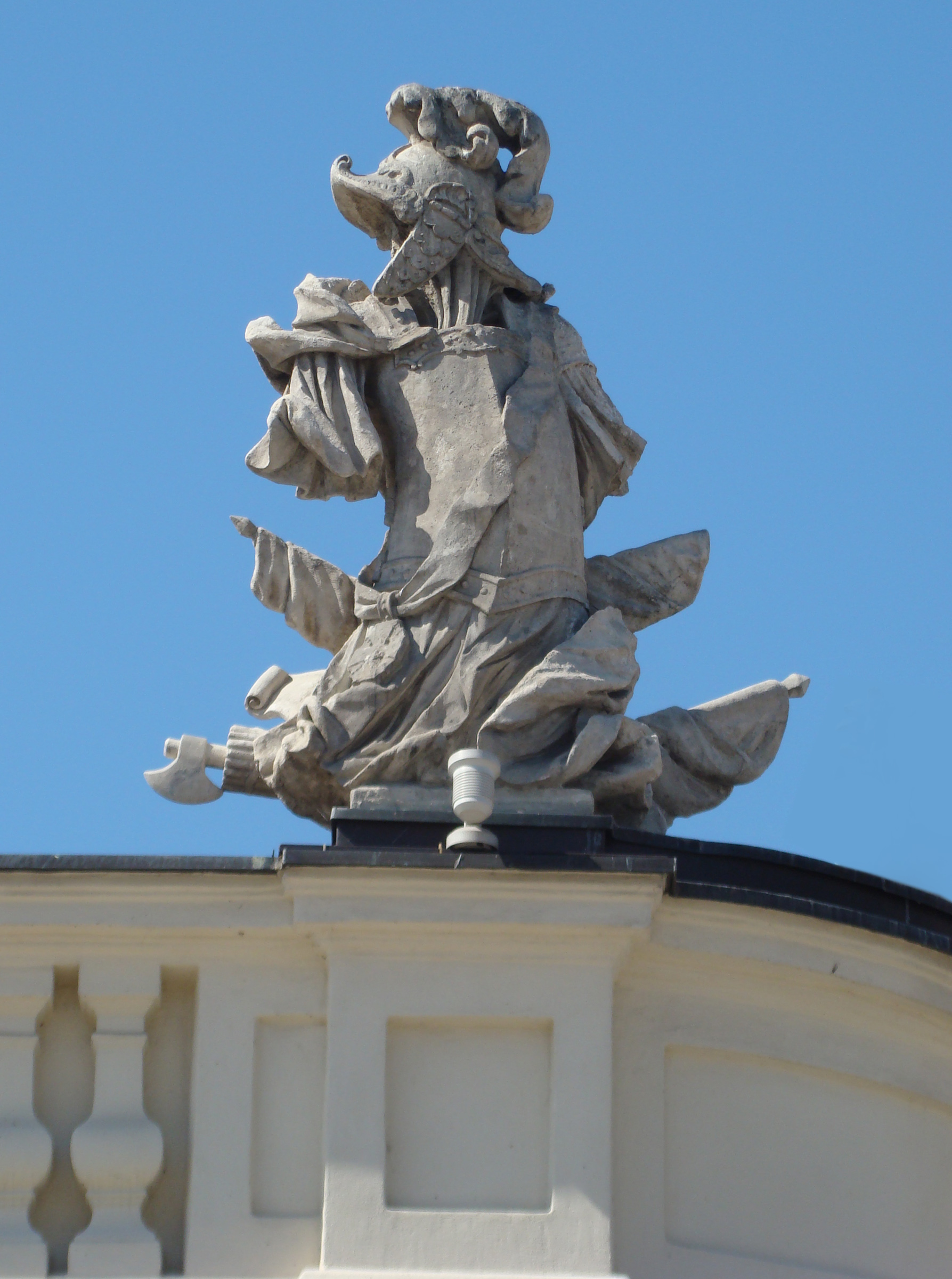 Potocki Palace, Warsaw (panoply)